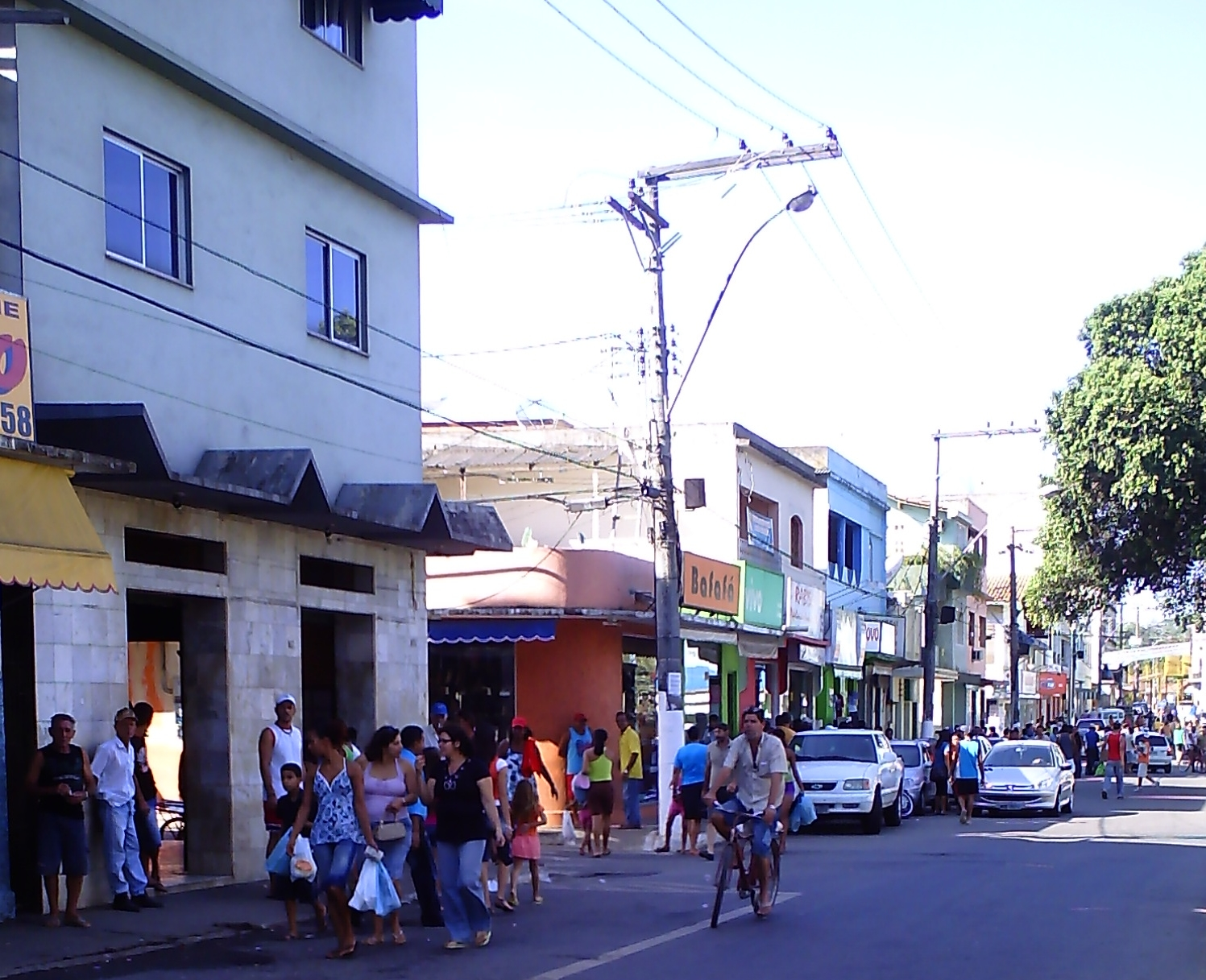 Avenida Presente Vargas, Downtown Fundão, Brazil